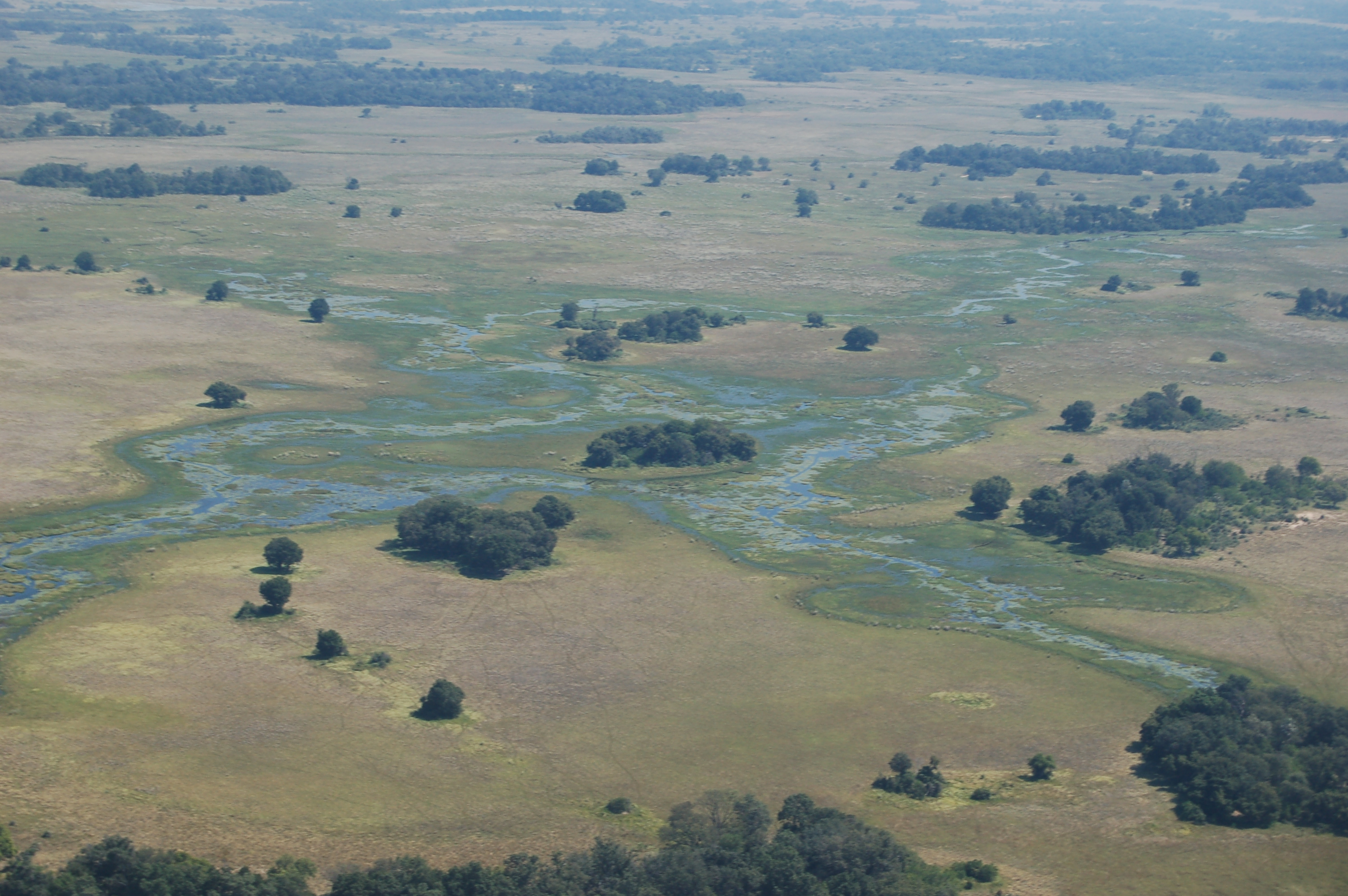 View on the Okavango Delta